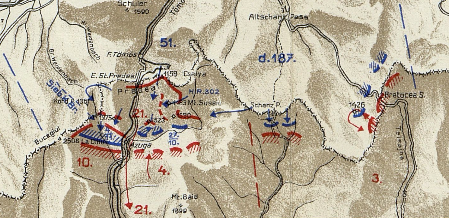 Romanian Front in WWI - The battle from Valea Prahovei, 1916